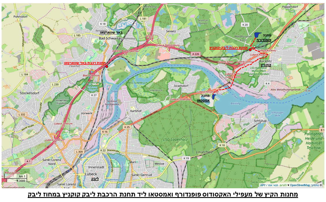 Location of the summer DP-camps of the Exodus illegal immigrants Pöppendorf and Am Stau in the district of Lübeck This map of OpenStreetMap was created from OpenStreetMap project data, collected by the community. This map may be incomplete, and may contain errors. Don't rely solely on it for navigation.